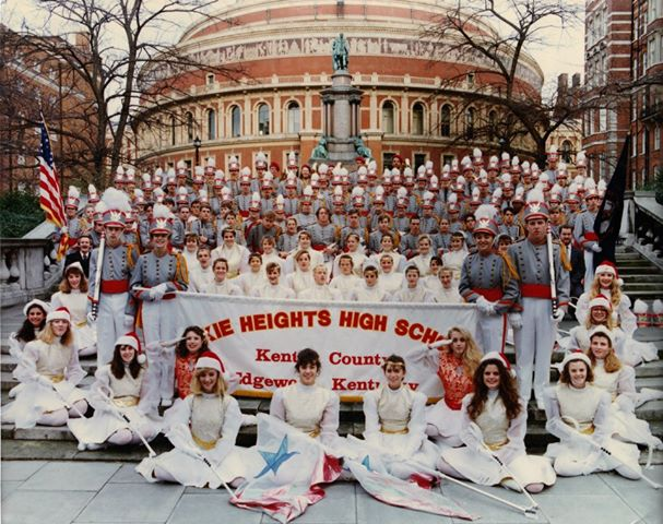 Dixie Heights High School Marching